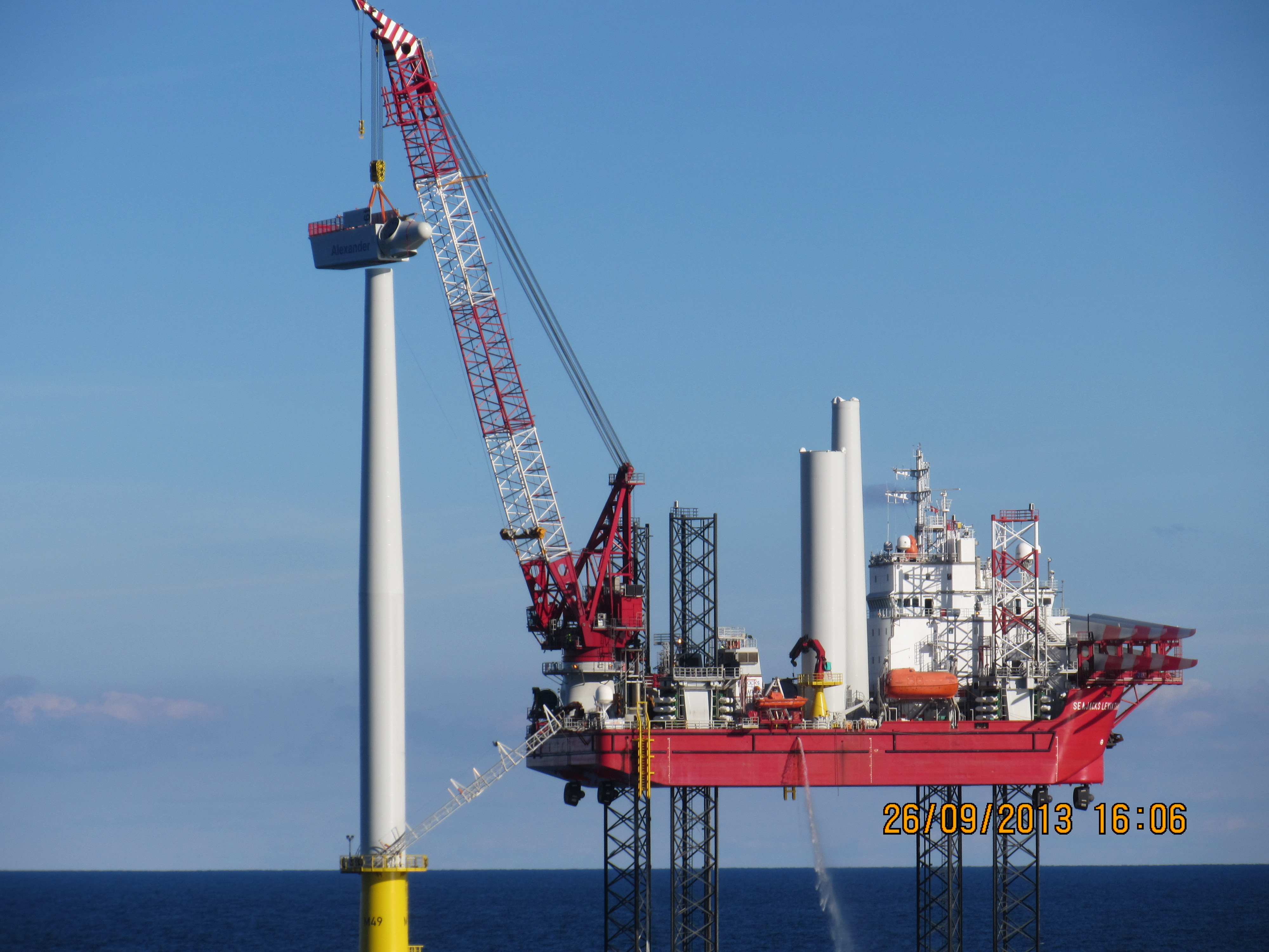 Construction of a wind turbine in the offshore wind park Sea Wind South / East (54° 23′ 0″ N, 7° 41′ 0″ O)